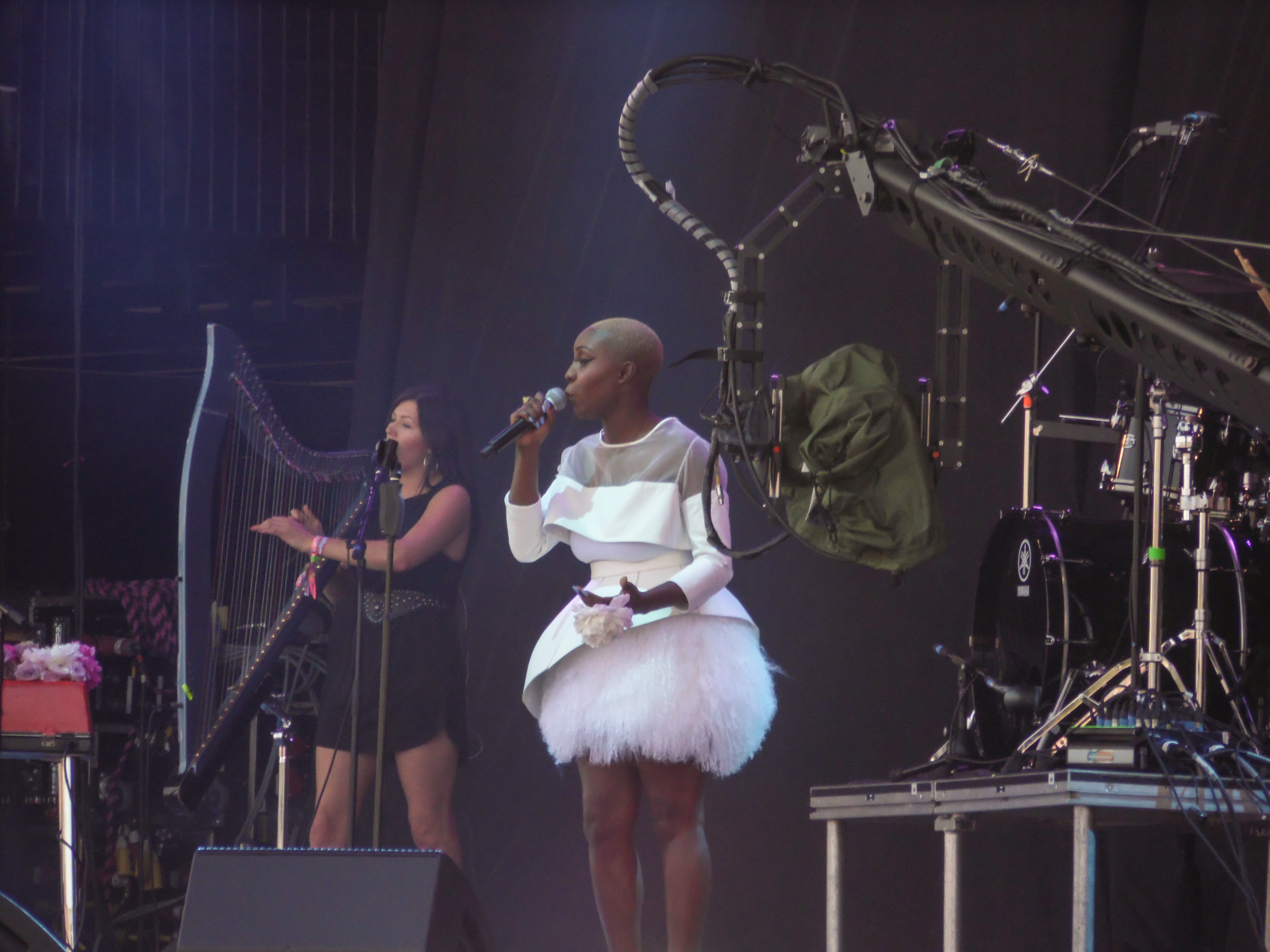 Live on the Pyramind Stage at Glastonbury Festival, 29 June 2013